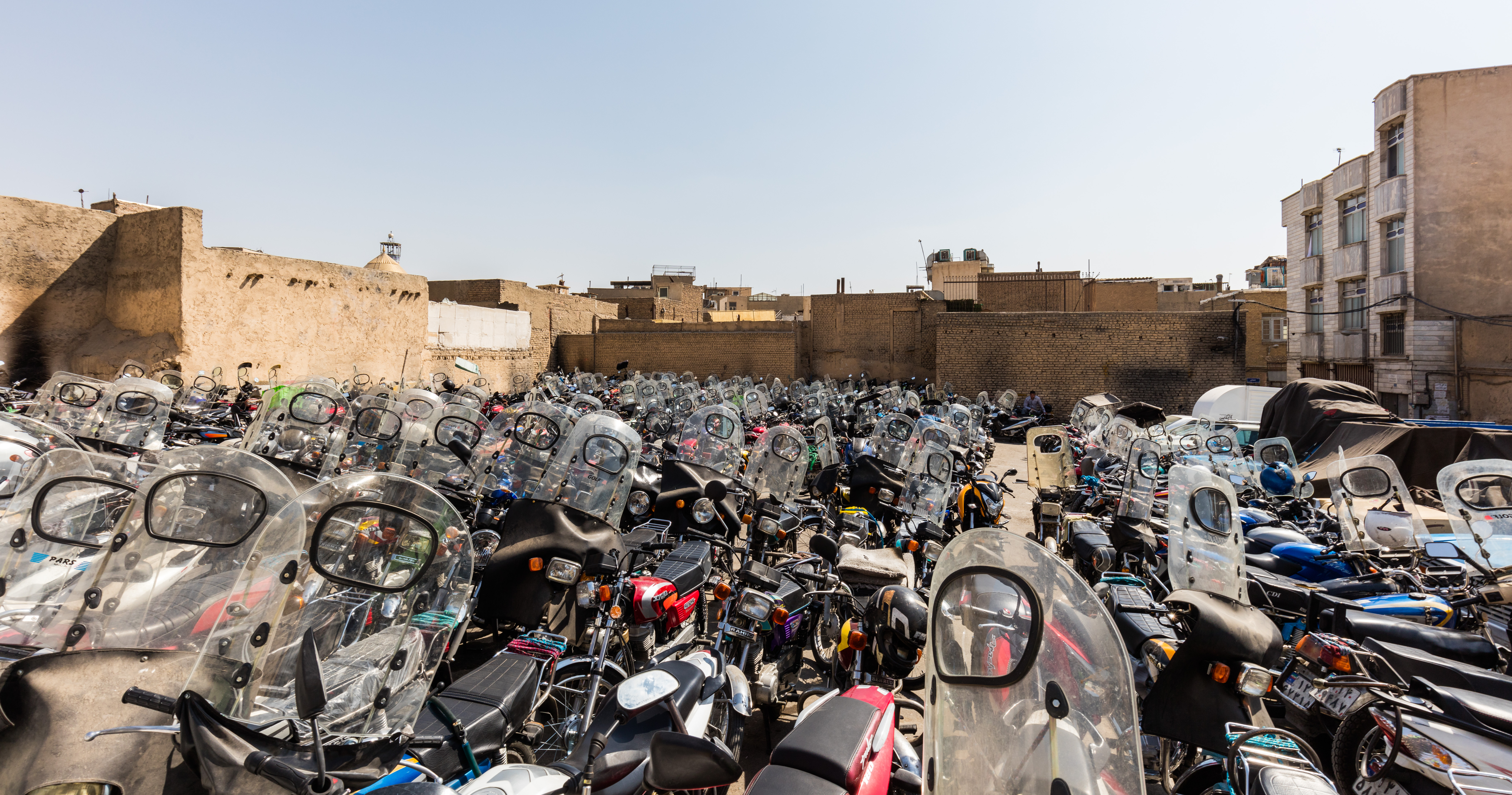 Motorcycles parking lot, Tehran, Iran